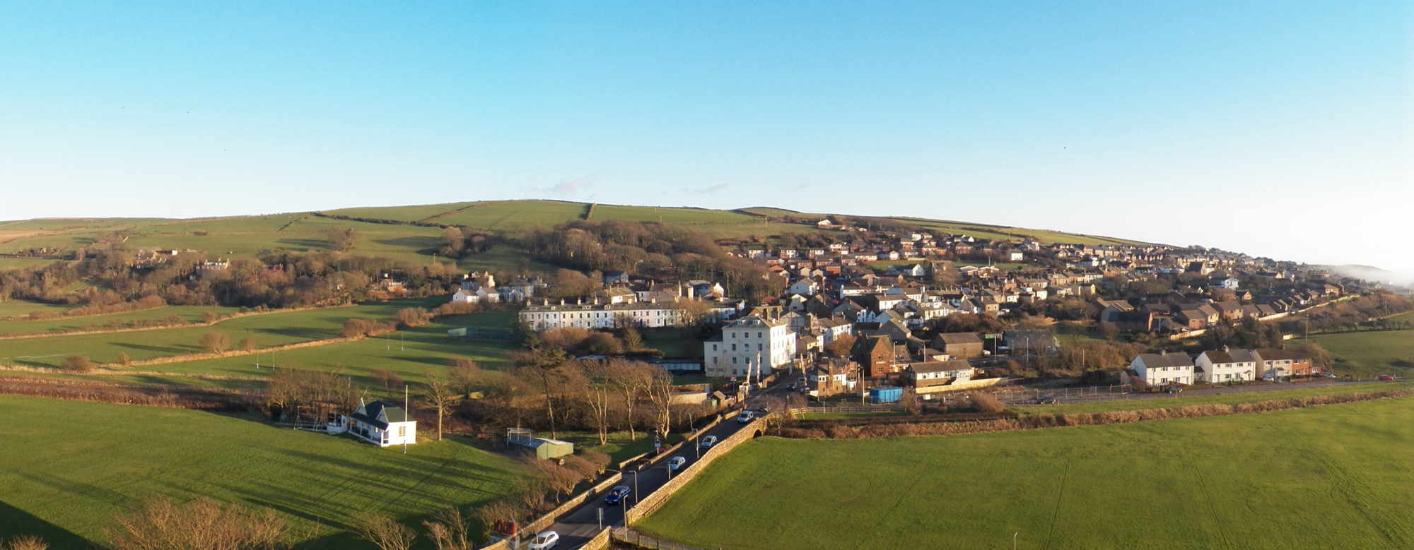 Panorama of St Bees Village Main Street section of the village from the North. Taken in low level winter sun from the tower of St Bees Priory.